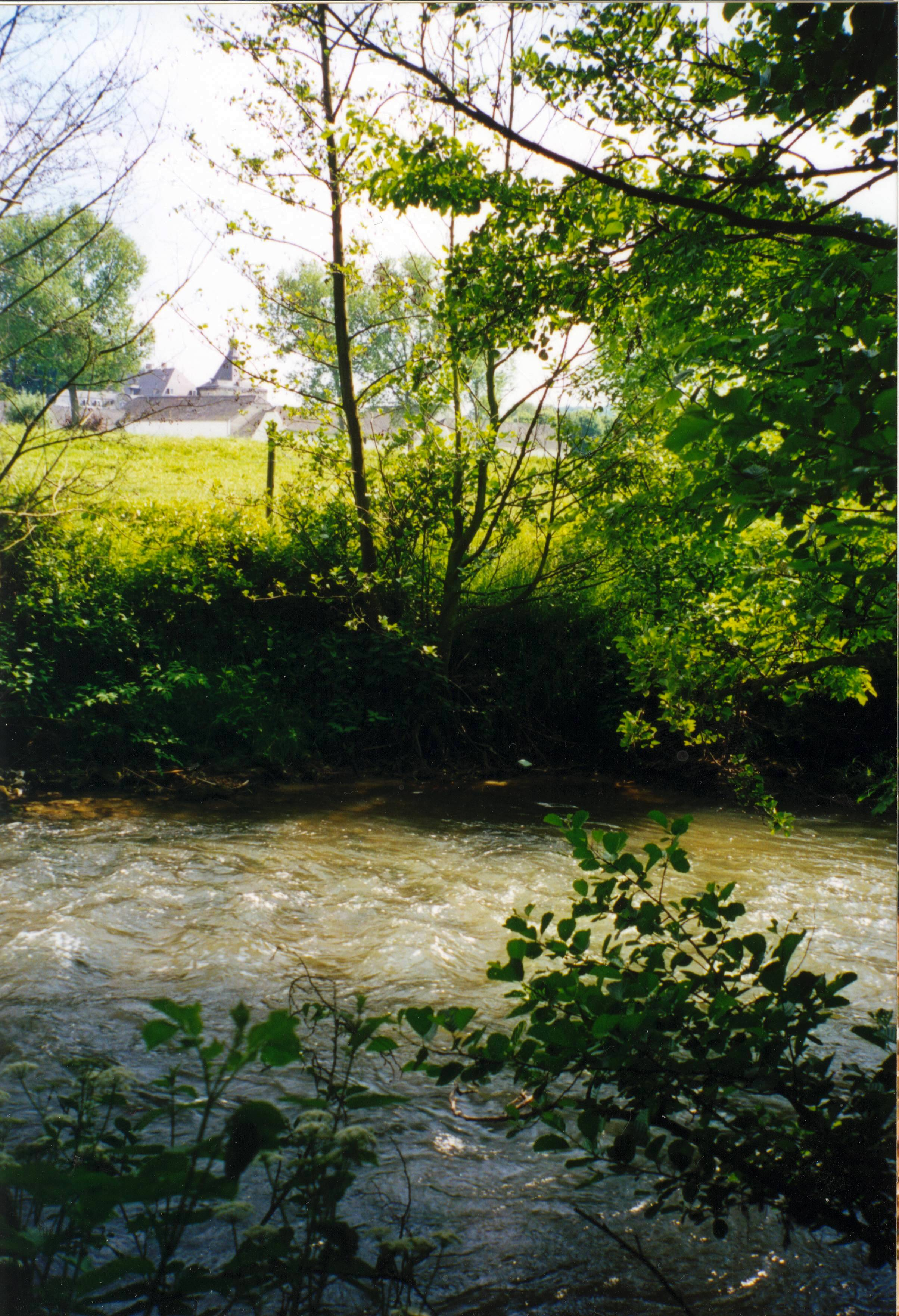 Geul a river in Limburg, The Netherlands